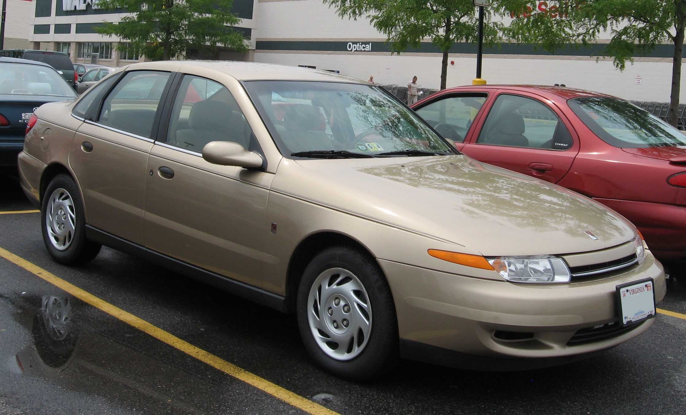 2000-2002 Saturn LS1 photographed in USA.